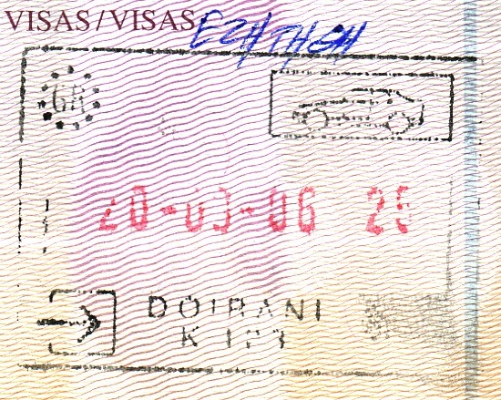 Passport stamp from Doirani, 2006 (with Star Dojran crossing, Macedonia)